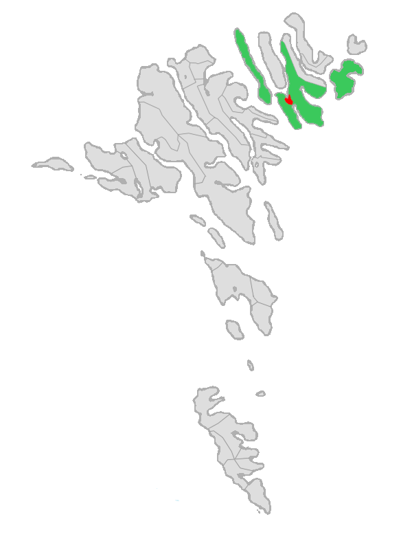 Map of the municipality of Klaksvík in the Faroe Islands, updated with the merger between the municipalities of Klaksvík and Svínoy in November 2008.